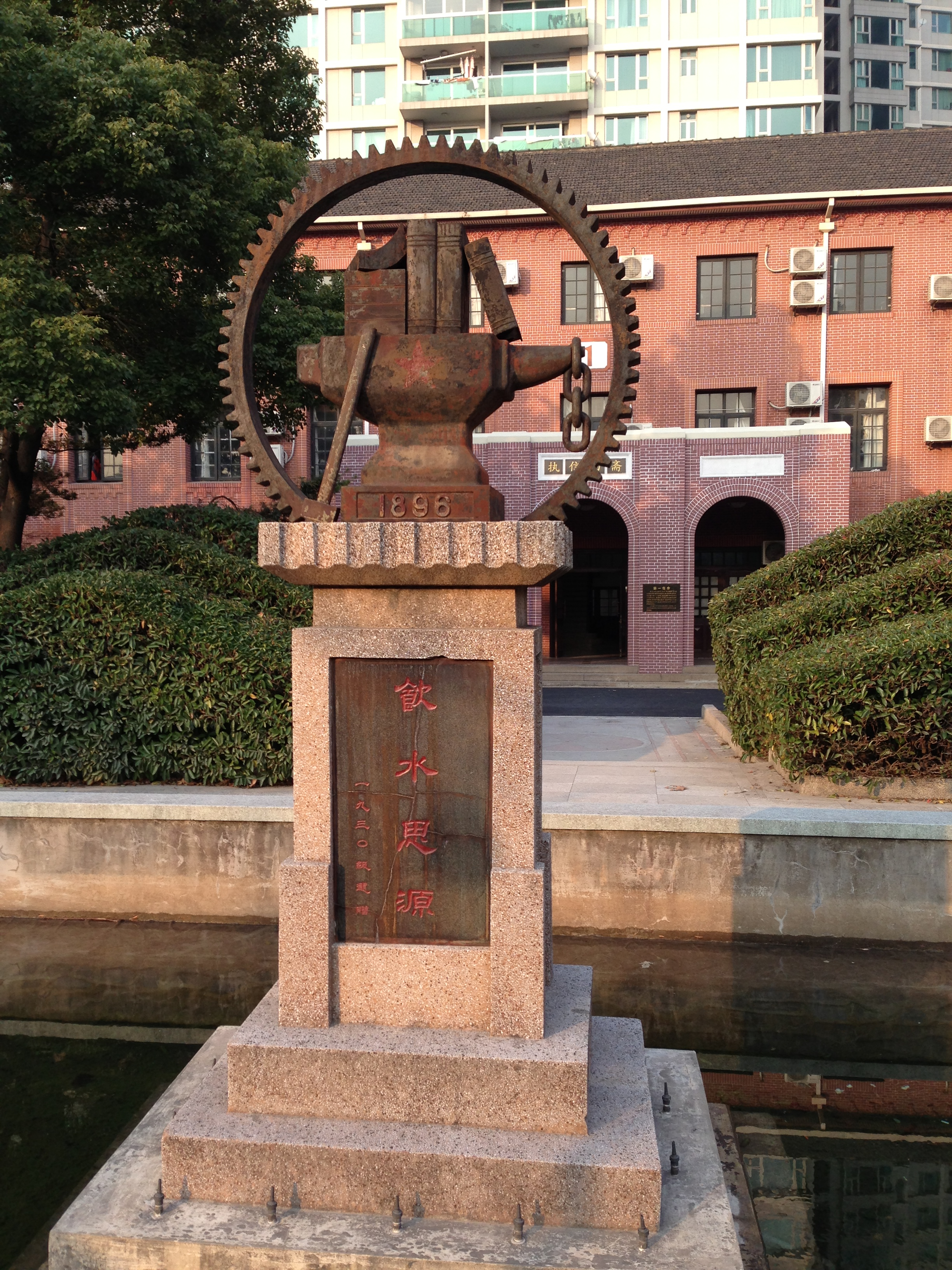 Yinshuisiyuan at Shanghai Jiao Tong University Xuhui Campus.